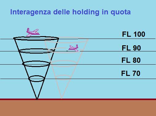 Holhing pattern separation